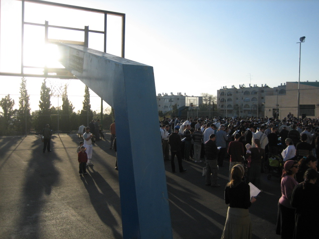 Ma'ale Adumim, High School Yeshiva - Birkat Hachama (Blessing of the Sun in 2009) Ma'ale Adumim